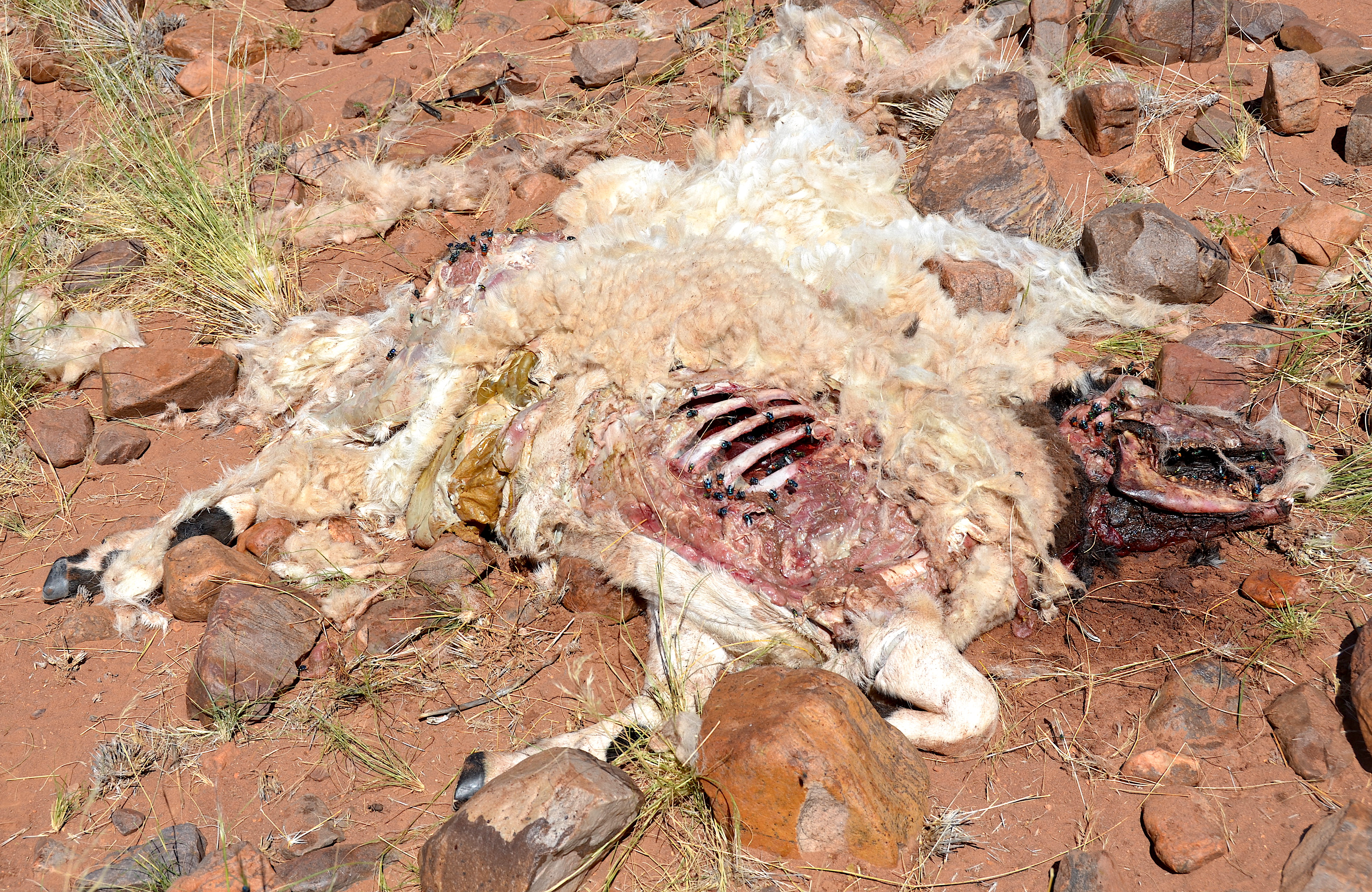 Flies settle on a sheep carrion